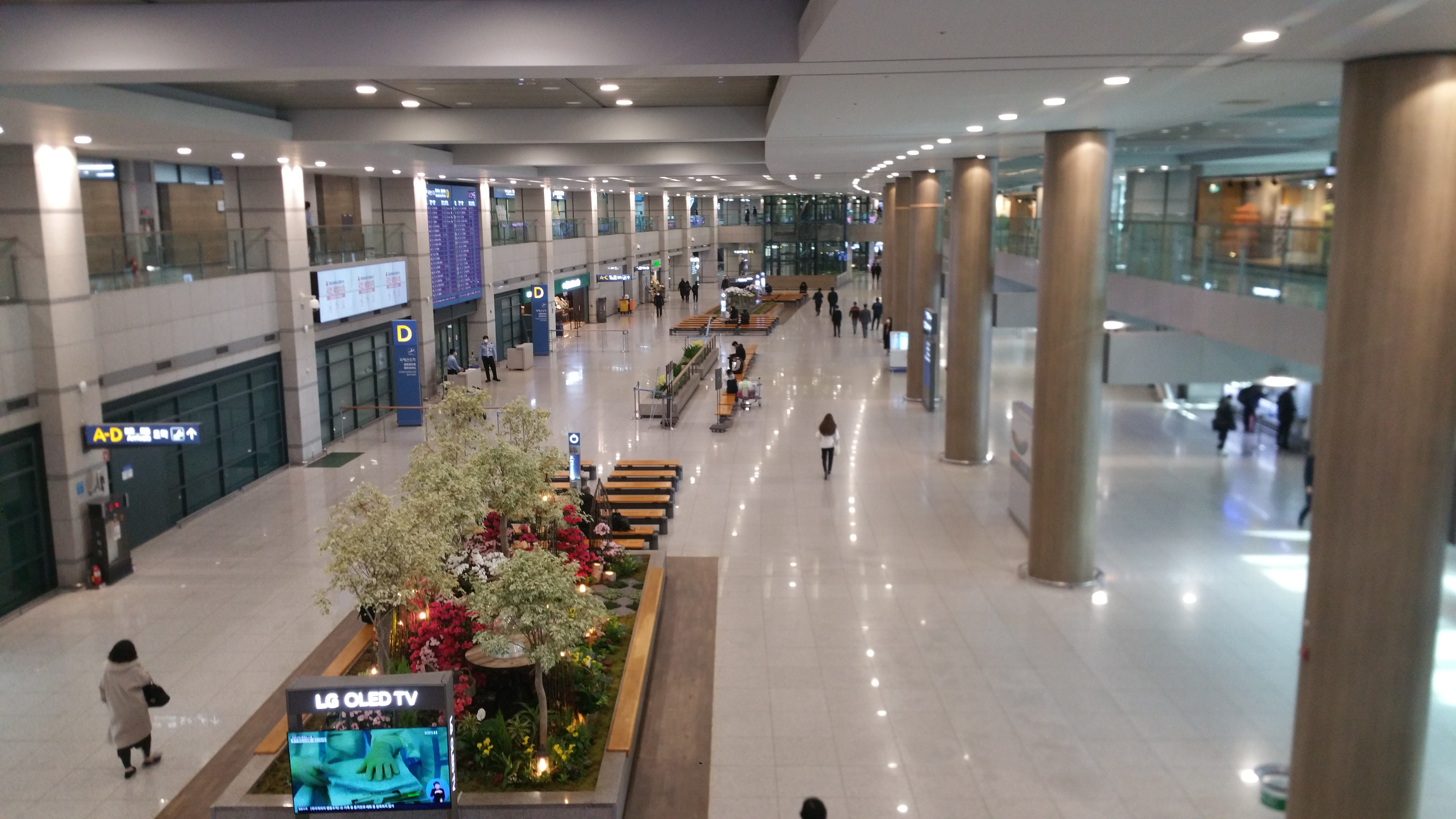 Few people in arrival hall at Incheon International Airport, Terminal 1, during coronavirus outbreak, March 6, 2020.